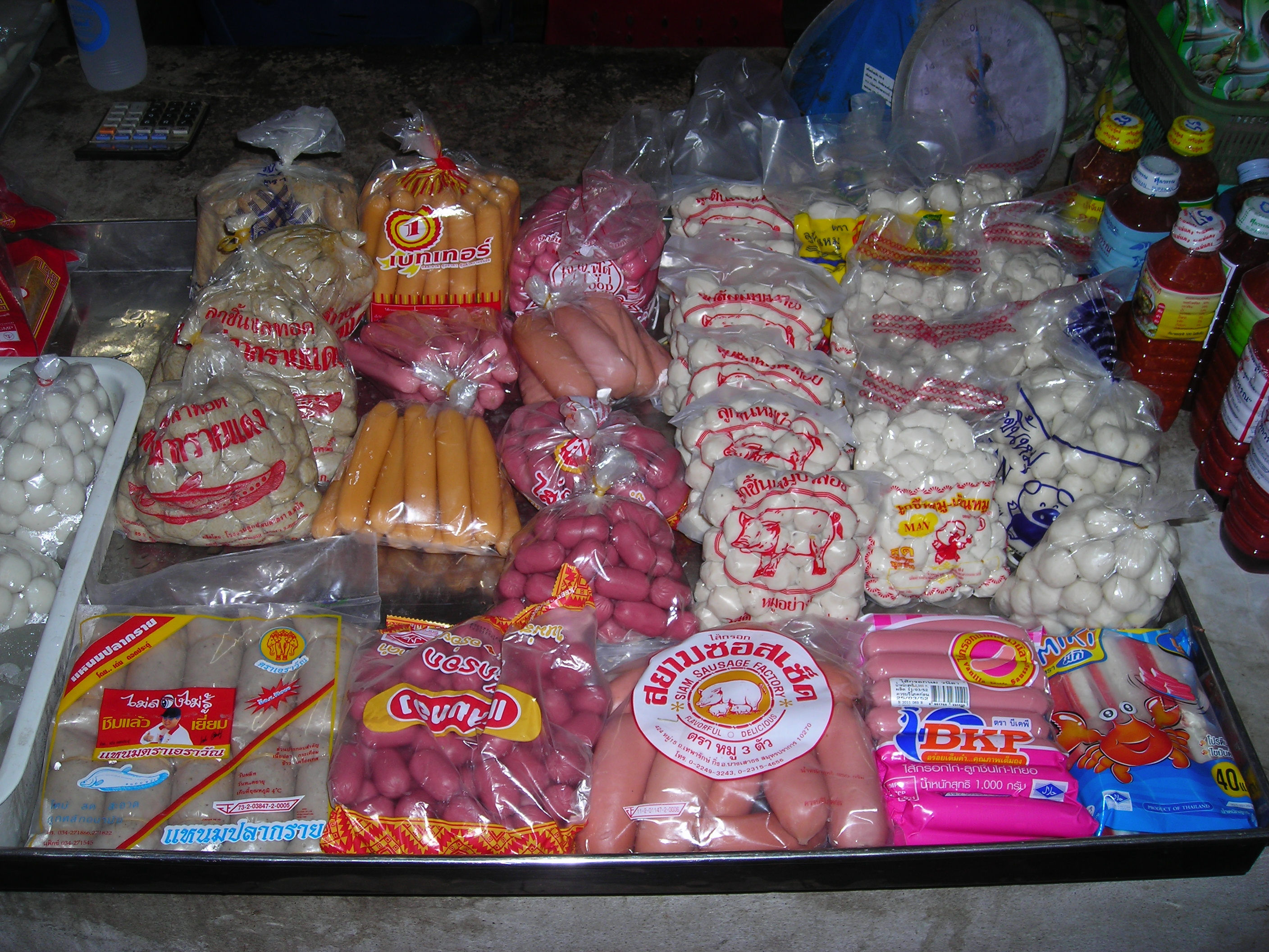 sausages and other meat products on display at a market in Samut Prakan Province, Thailand.